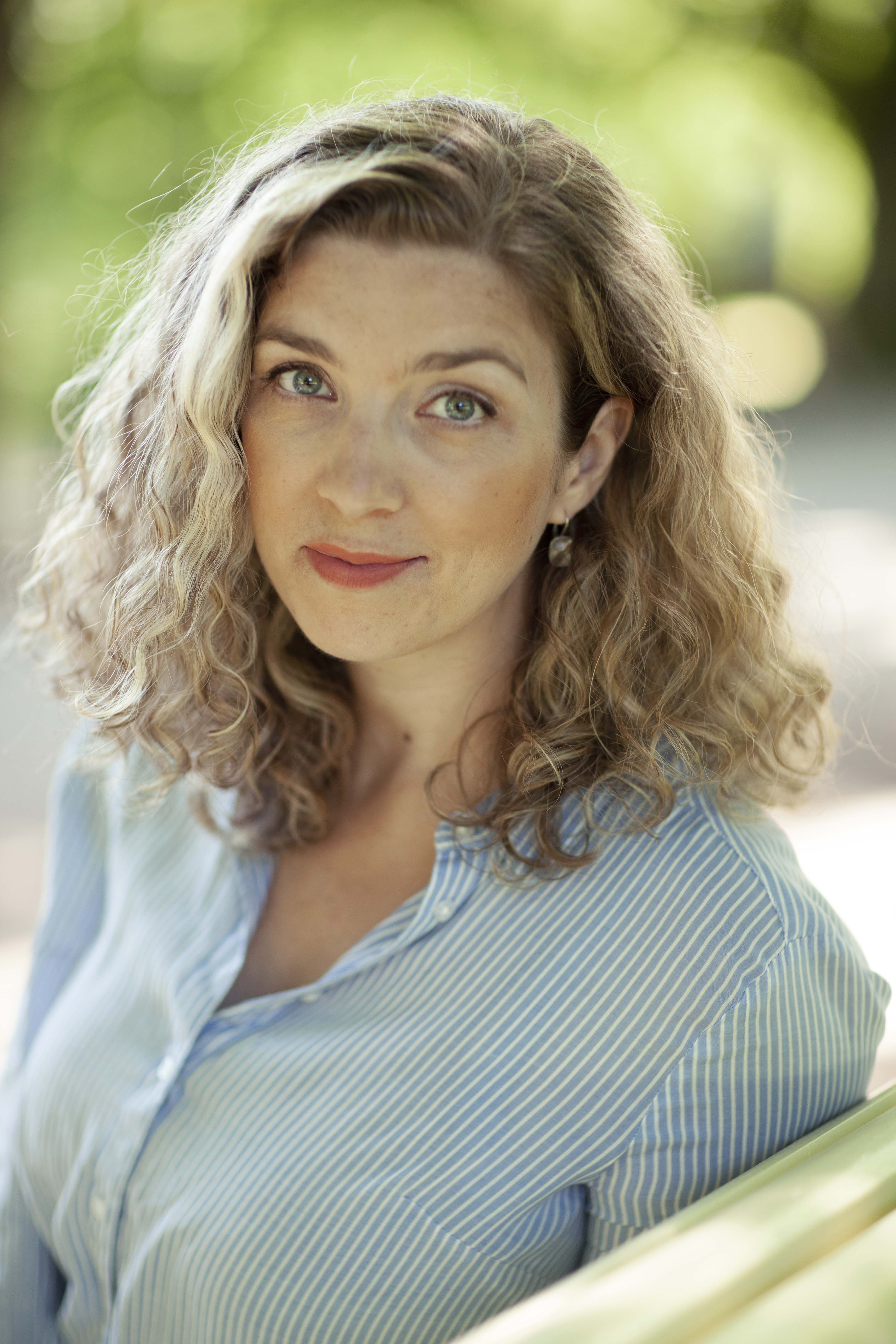 Author Frida Skybäck photographed by Hans Jonsson 2018